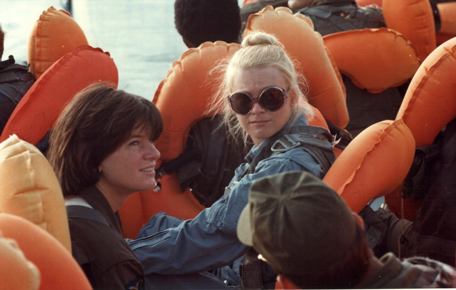 Sally Ride and Rhea Seddon ,US astronauts training, 1978